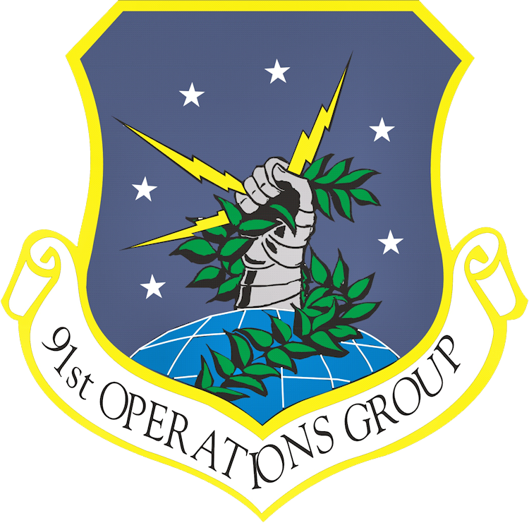 Emblem of the USAF 91st Operations Group